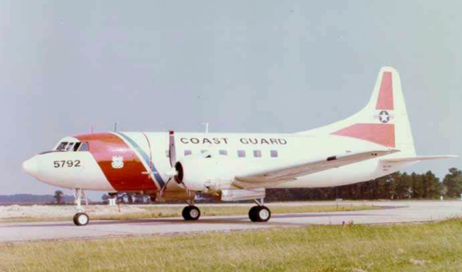 A U.S. Coast Guard Convair HC-131A Samaritan (s/n 5792, ex USAF 52-5792). 17 HC-131As were operated by the USCG from 1976 to 1982. The last active plane was 5792, which made its last flight on 23 November 1982 at CGAS Miami, Florida (USA).